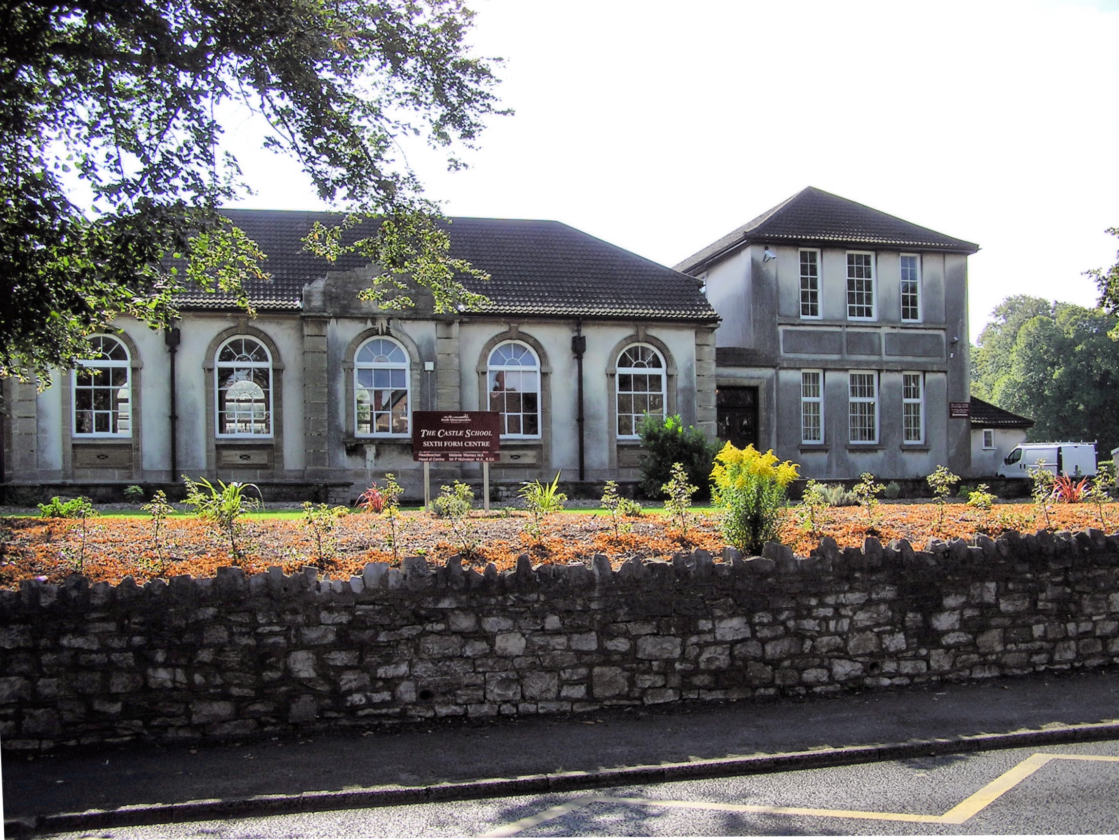 The Castle School Sixth Form Centre in Thornbury, South Gloucestershire, England. Taken by Adrian Pingstone in September 2004 and placed in the public domain.